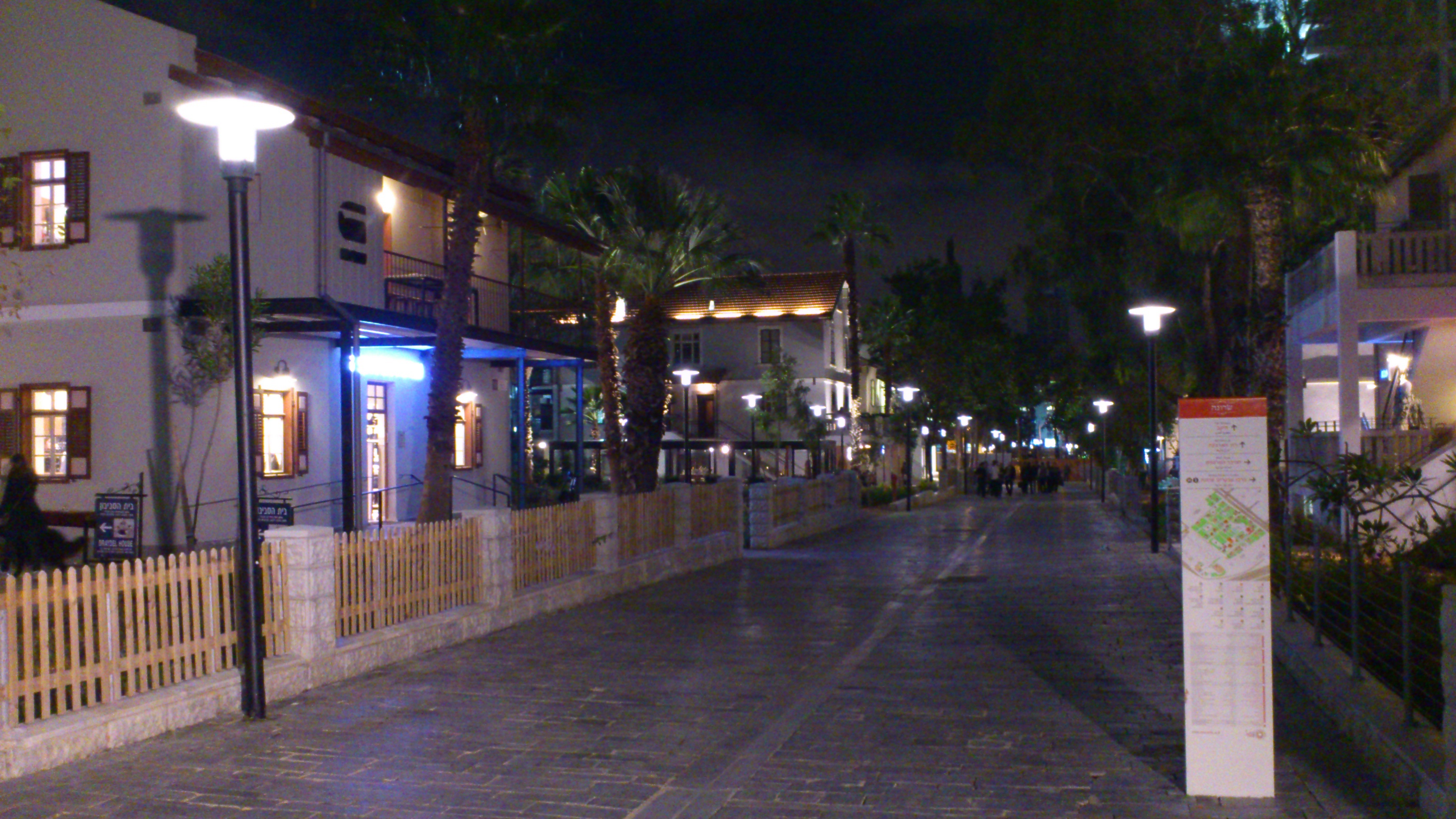 Category:Sarona